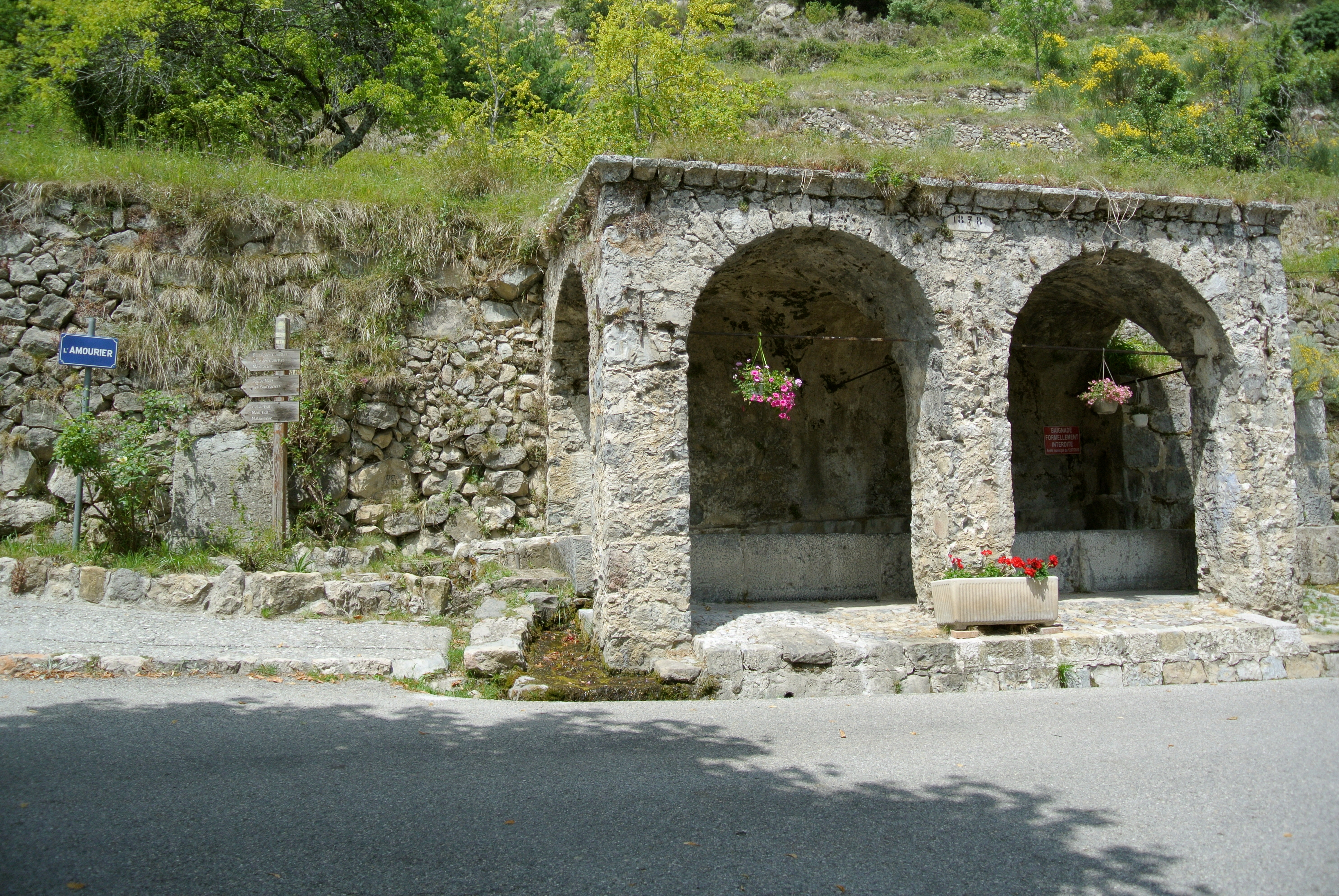 Washhouse and Amourier in Toudon.